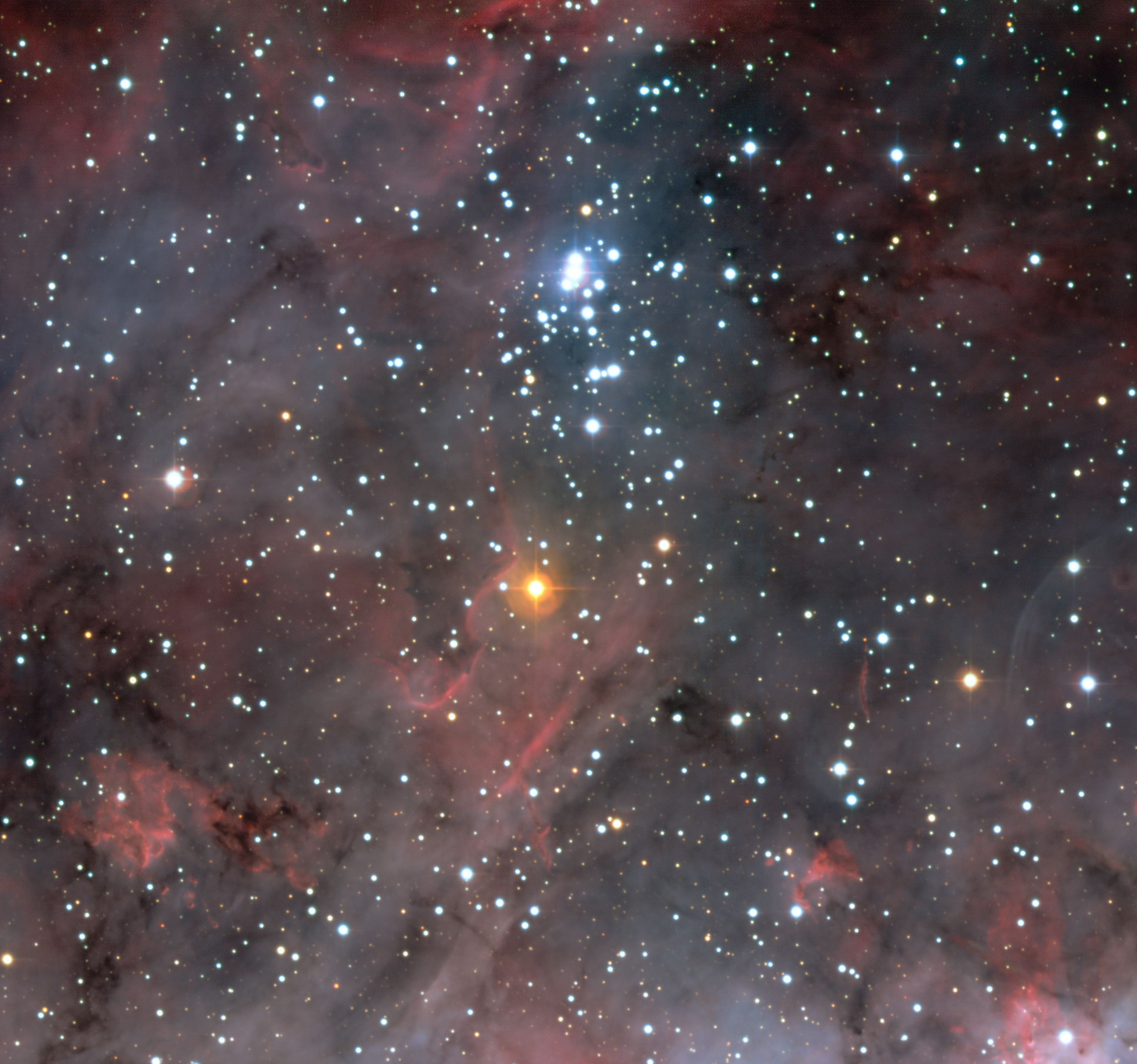 The Trumpler 15 open cluster on the north edge of the Carina Nebula